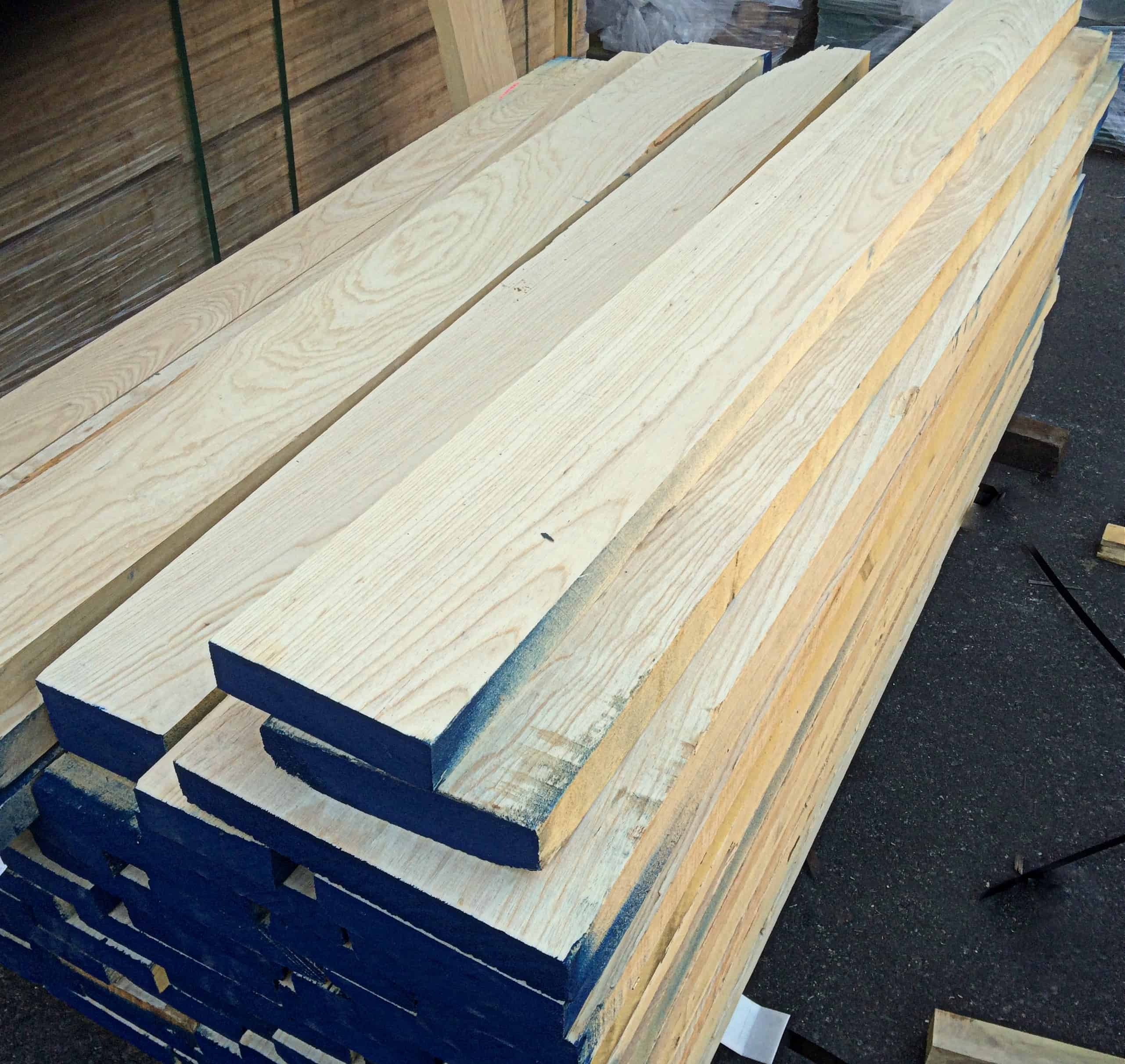 8/4 Swamp Ash lumber is used in the manufacture of electric guitar bodies.